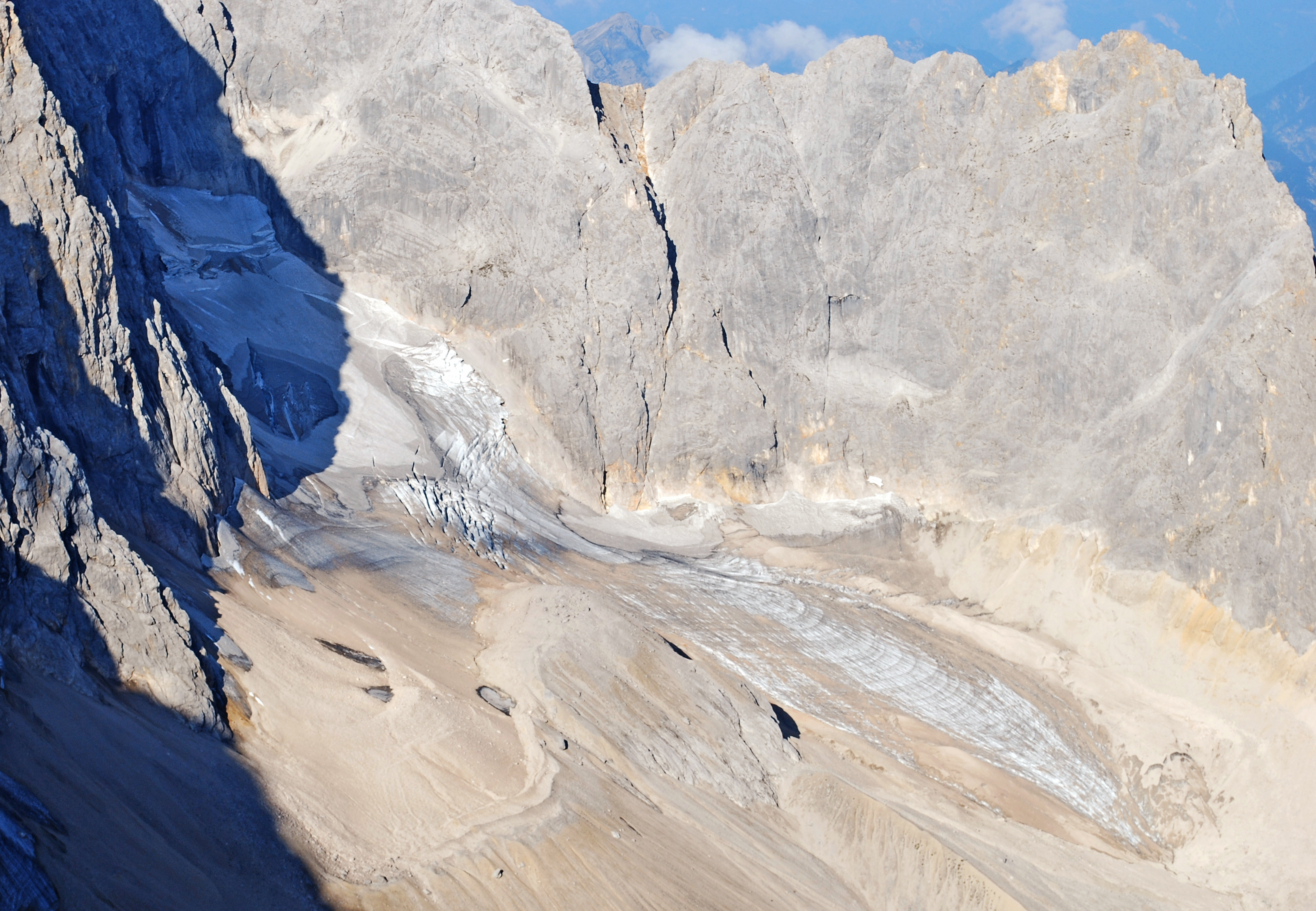 Höllentalferner from East (Jubiläumsgrat)